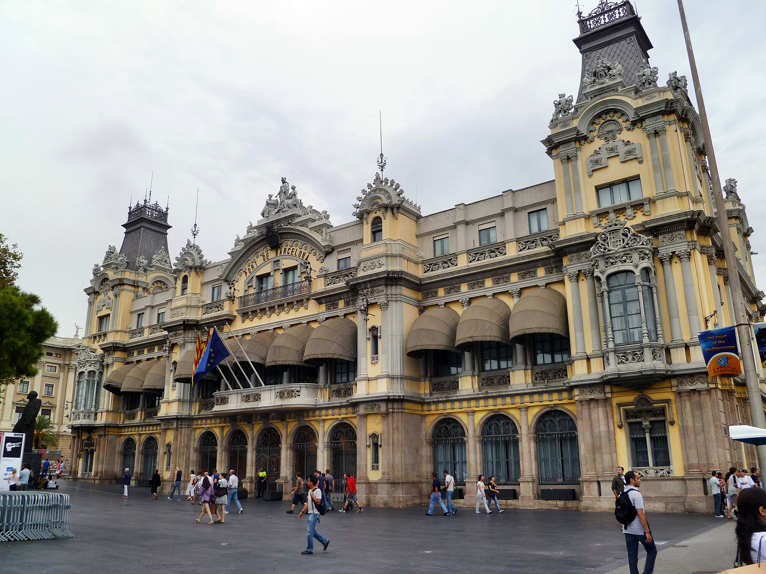 Building with the offices of the Port Authority of Barcelona on Passeig de Colom, Barcelona, Spain.